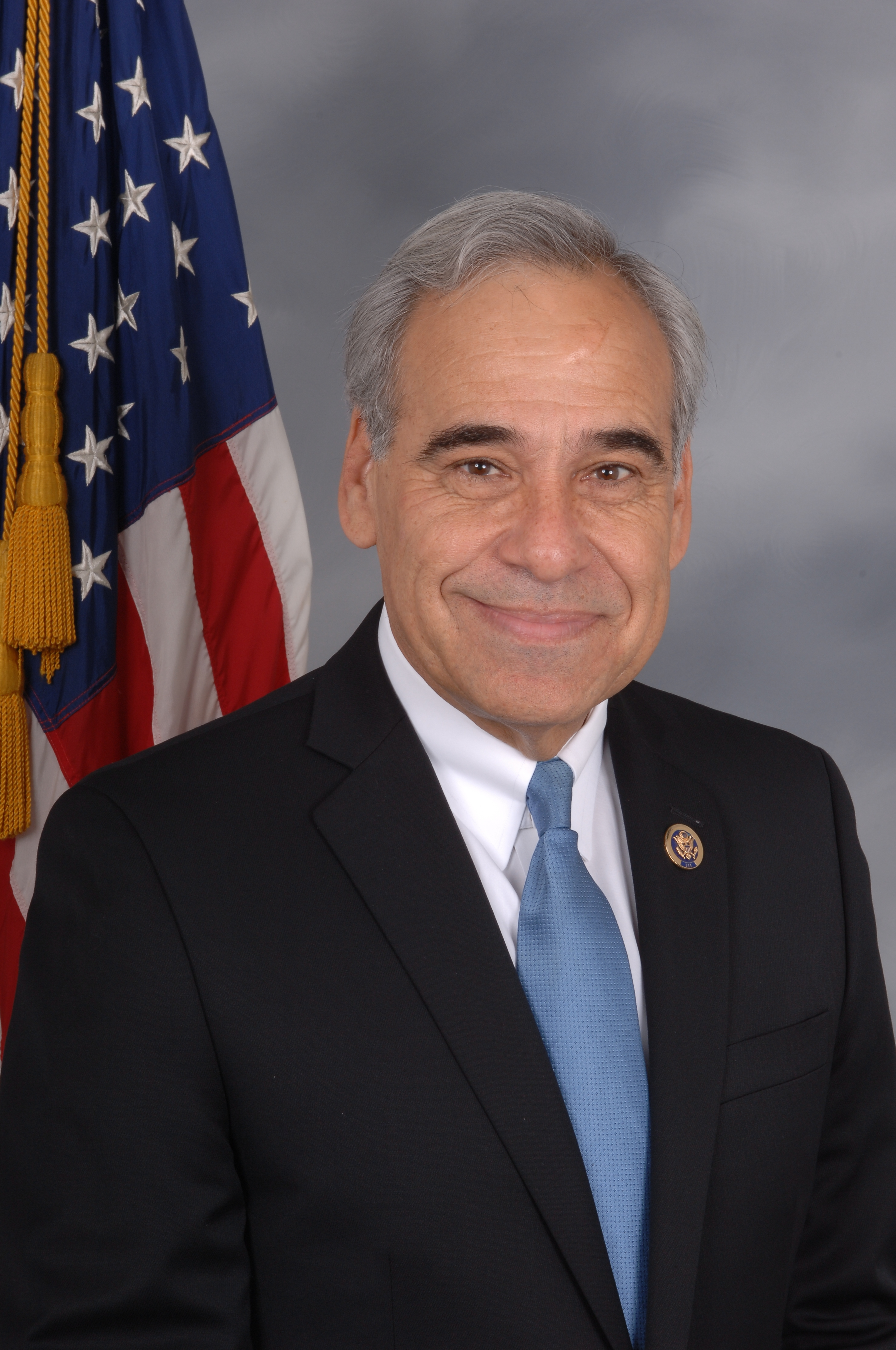 Congressman Charlie Gonzalez OFFICIAL PORTRAIT